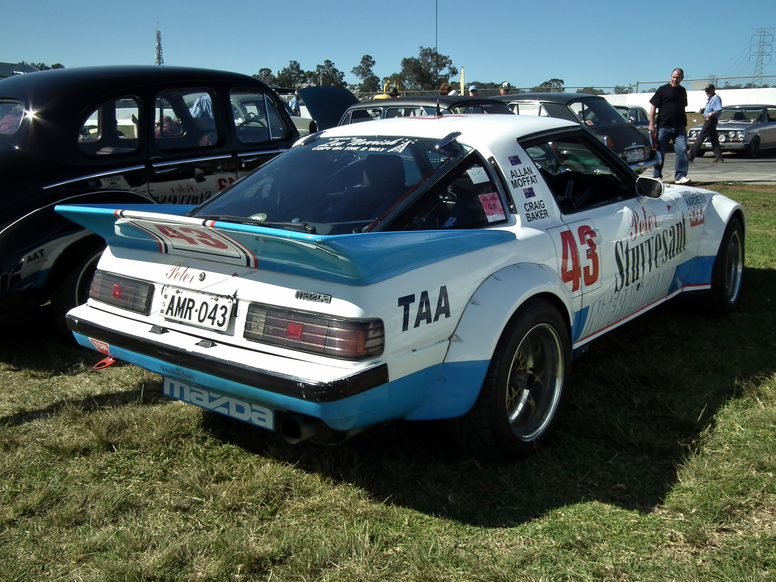 1982 Mazda RX7 series II coupe - Group C replica. Tribute to the car driven by Allan Moffat and Yoshimi Katayama in the James Hardie 1000 at Bathurst in 1982. Taken at the 2013 Shannon's Eastern Creek Classic display day, held at Sydney Motorsport Park.